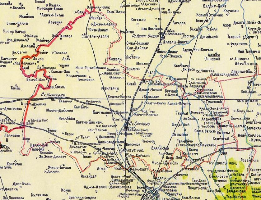 Sarabuzsky district, Crimea. 1922